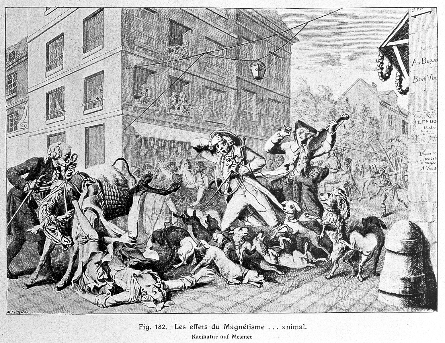 Caricature: Le Mesmerisme Confondu. General Collections Keywords: Mesmerism; Satire; Hypnosis; A Schuler